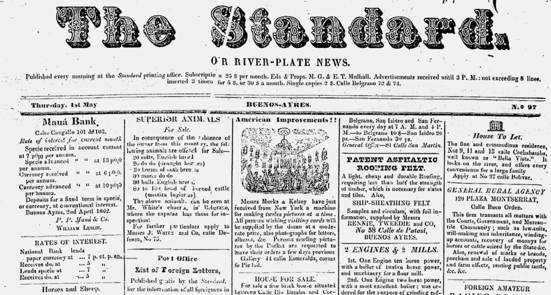 Front page of The Standard for 1 May 1862 when it became the first English daily newspaper in South America.